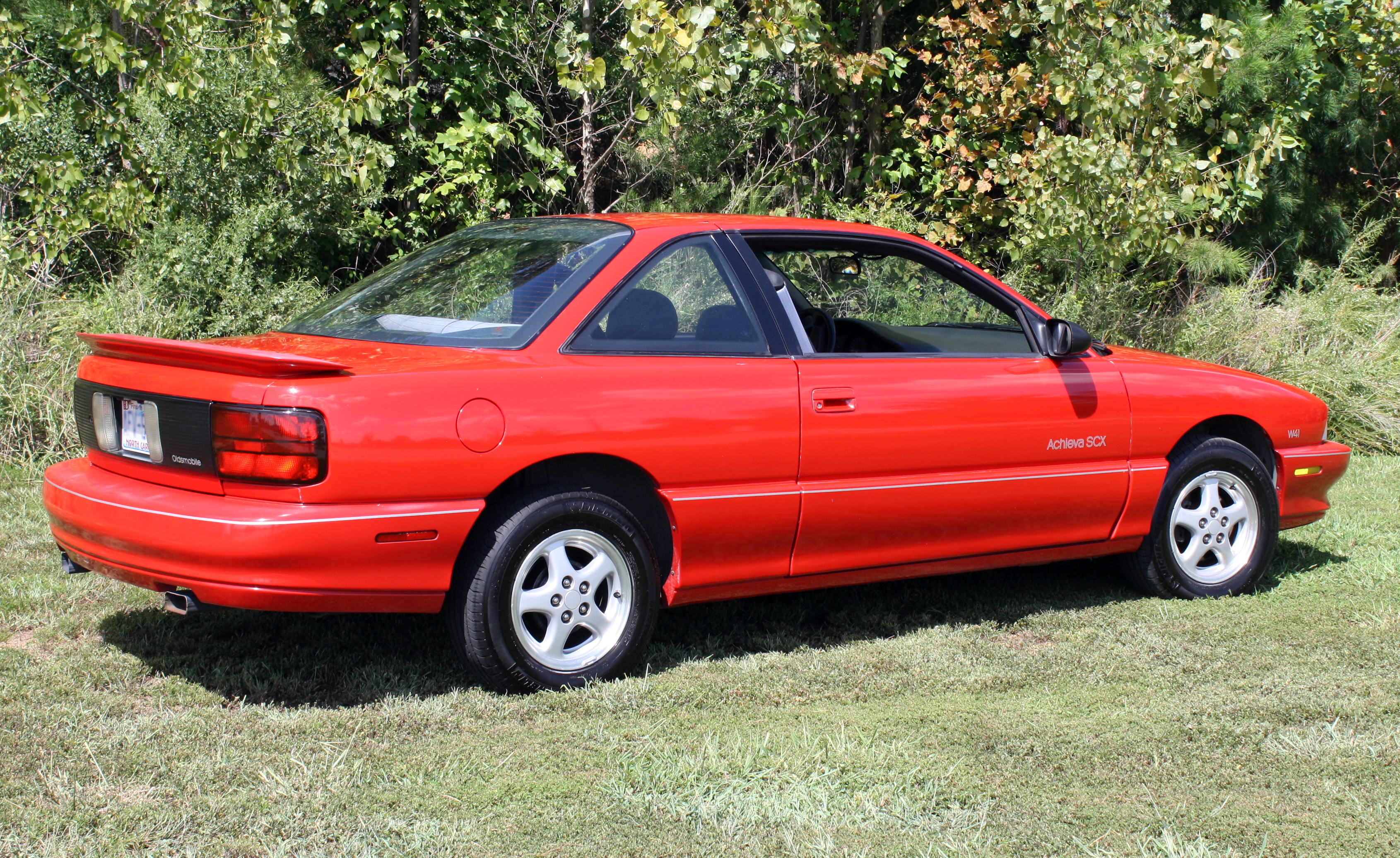 SCX with W41 engine in Matthews, NC, USA. 29k original miles when photographed.